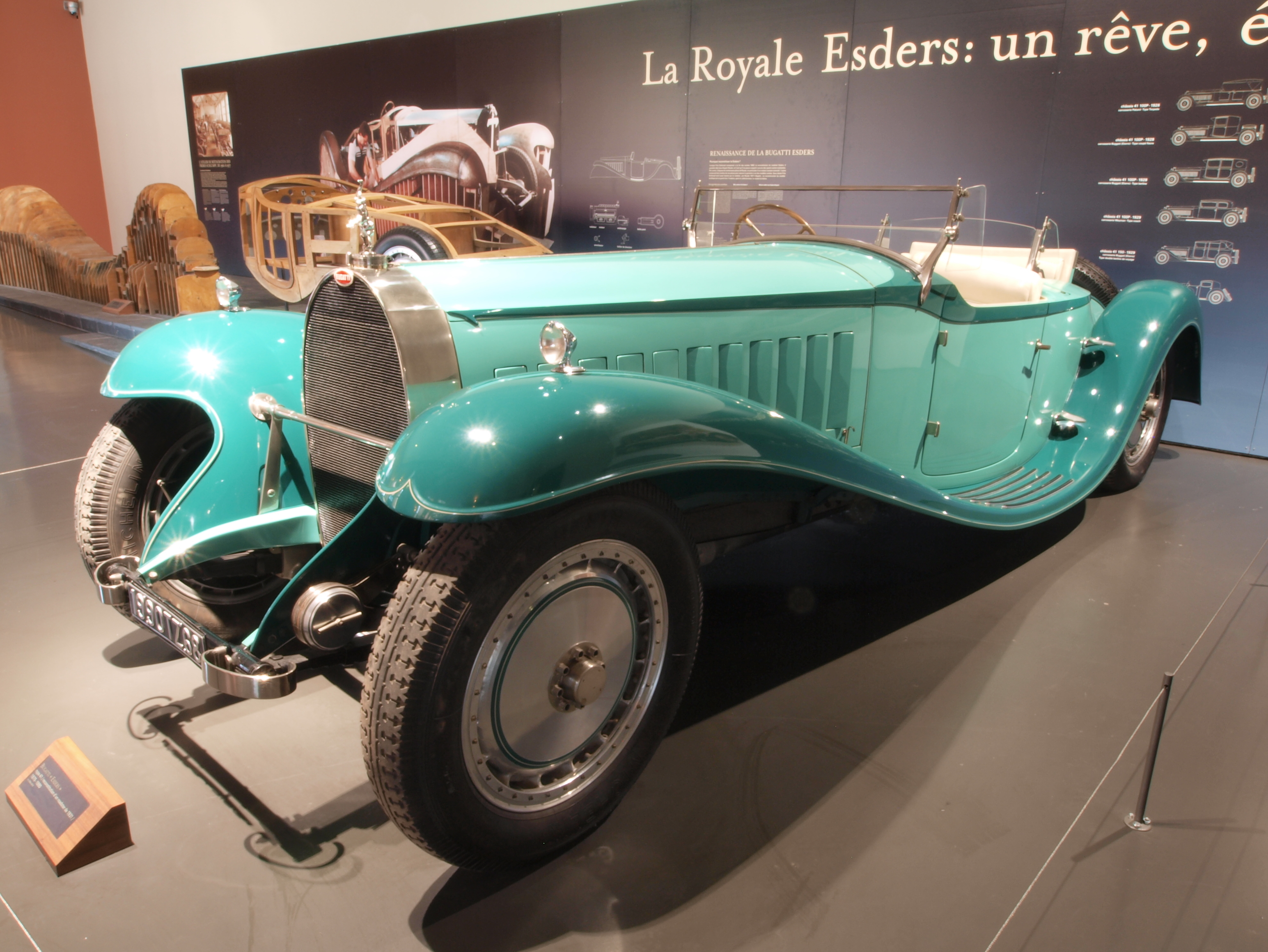 Photographed at the Cité de l’Automobile, France. OLYMPUS DIGITAL CAMERA